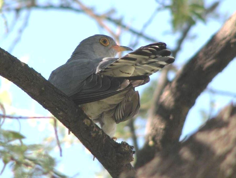 An adult African cuckoo in Etosha National Park, Namibia